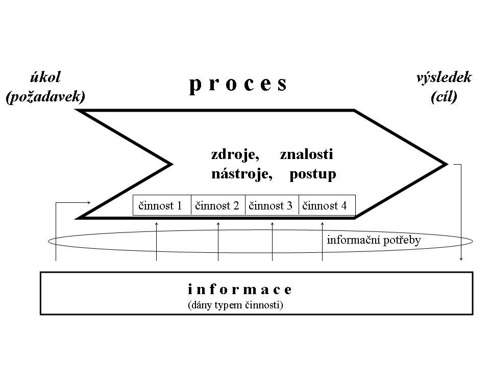 Information needs of process producer